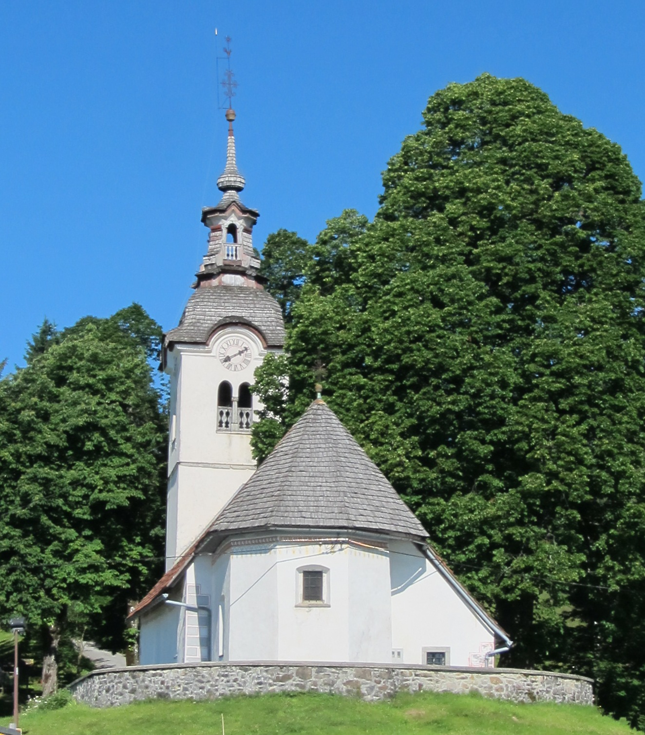 Assumption of Mary Church in Smrečje, Municipality of Vrhnika, Slovenia.